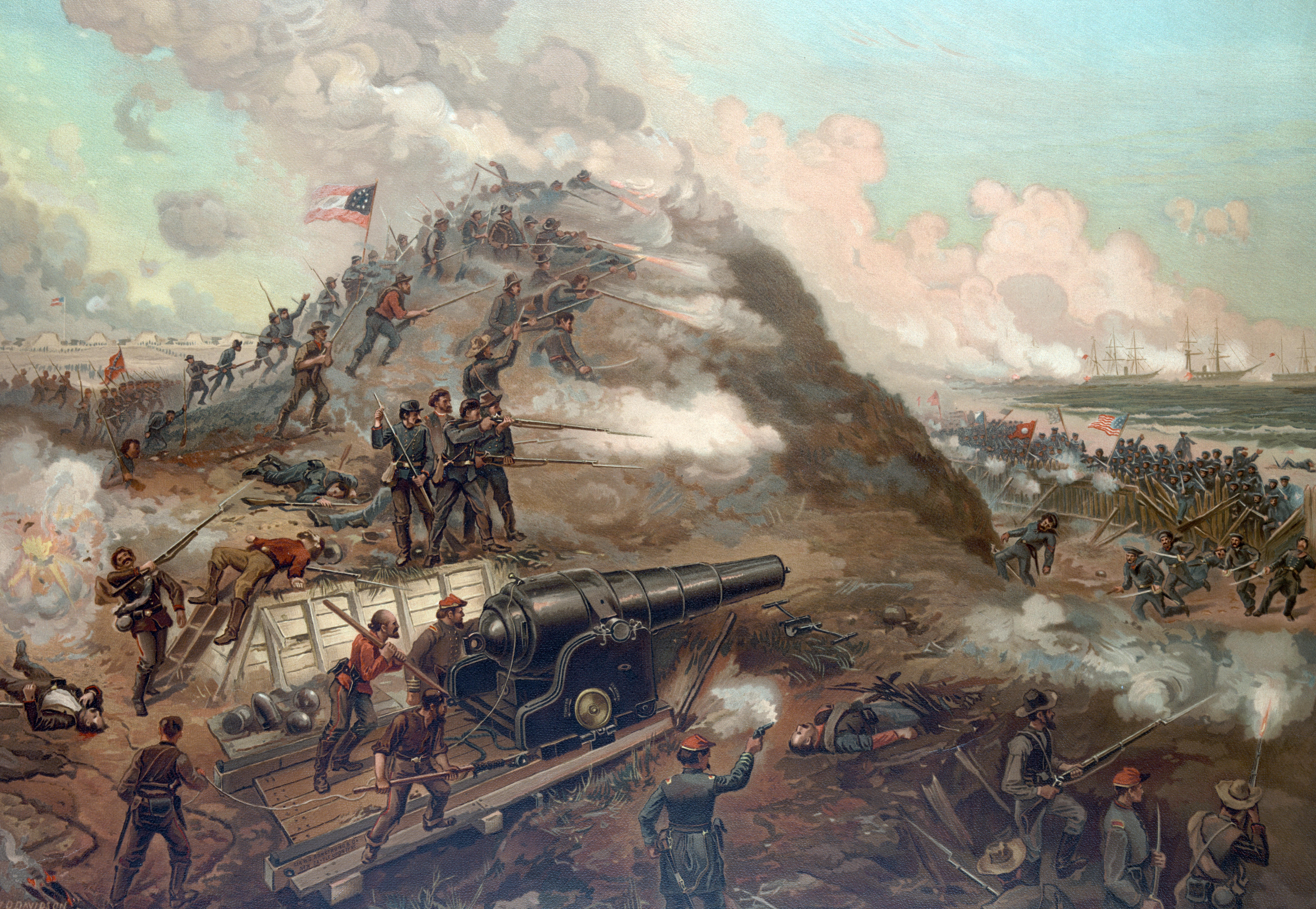 LC-DIG-PPMSCA-19925: Civil War, Capture of Fort Fisher, January 15, 1865. Created by L. Prang & Company, 1887. Courtesy of the Library of Congress.